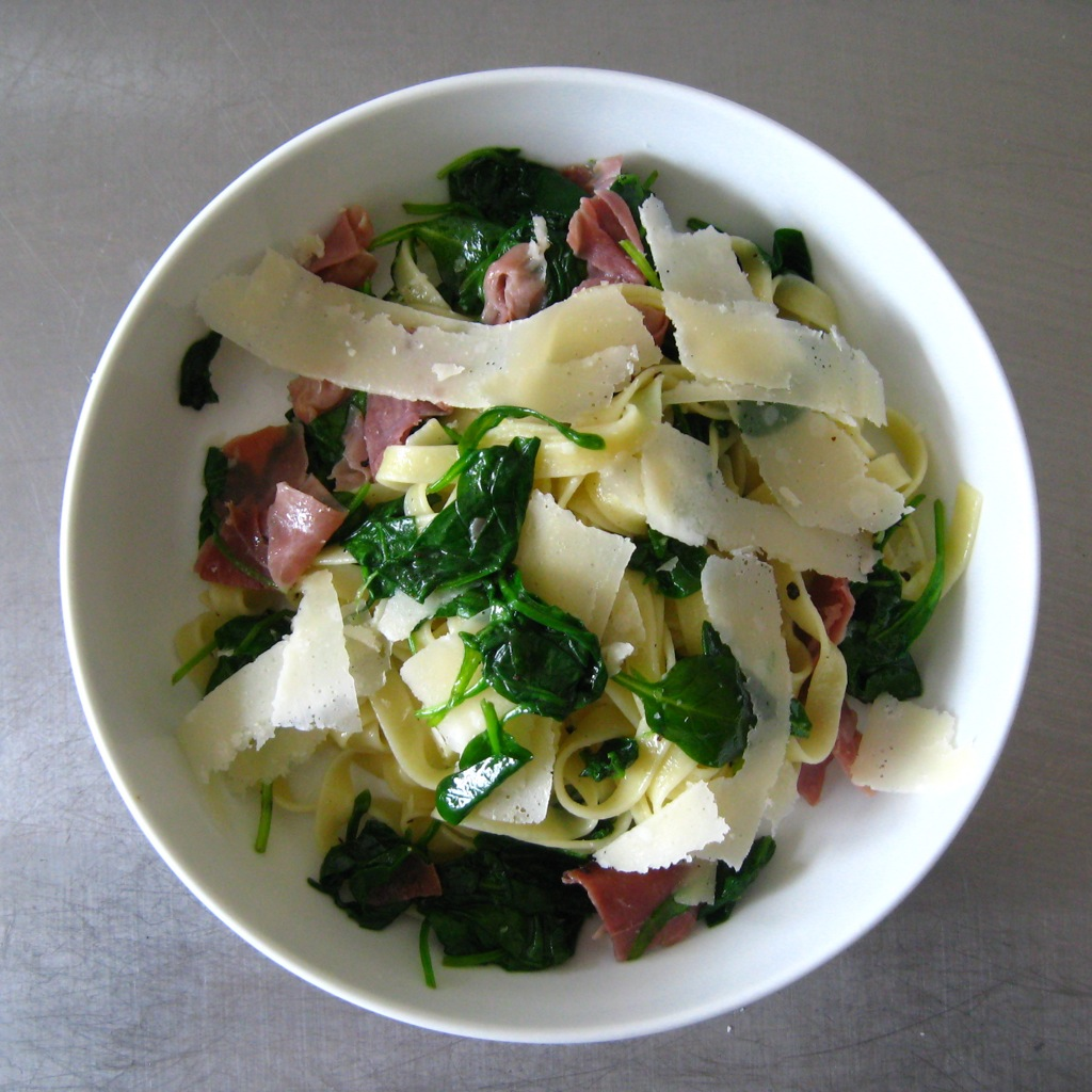 Cooking doesn’t get much easier than this.